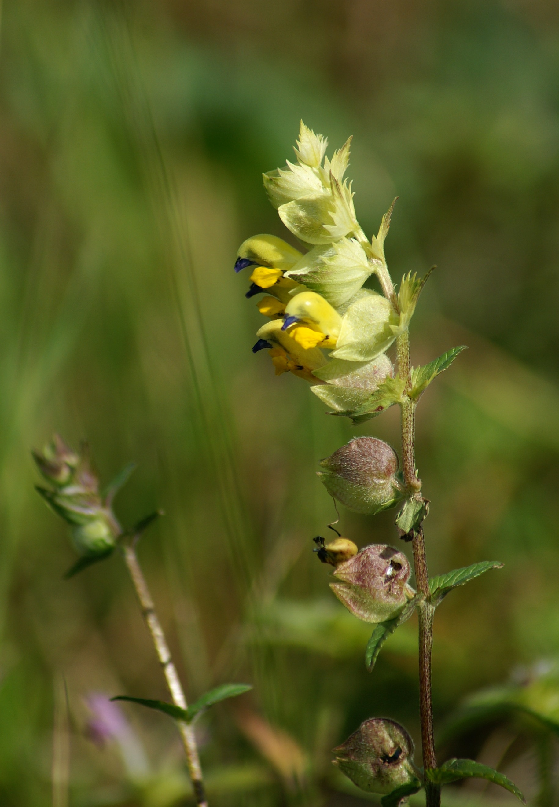 Rhinanthus angustifolius or Greater Yellow-rattle is a plant species of the genus Rhinanthus.